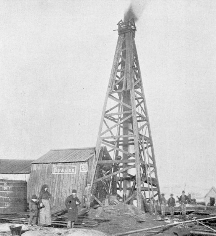 Oil erupting from a Steaua Română derrick in Câmpina, Romania.